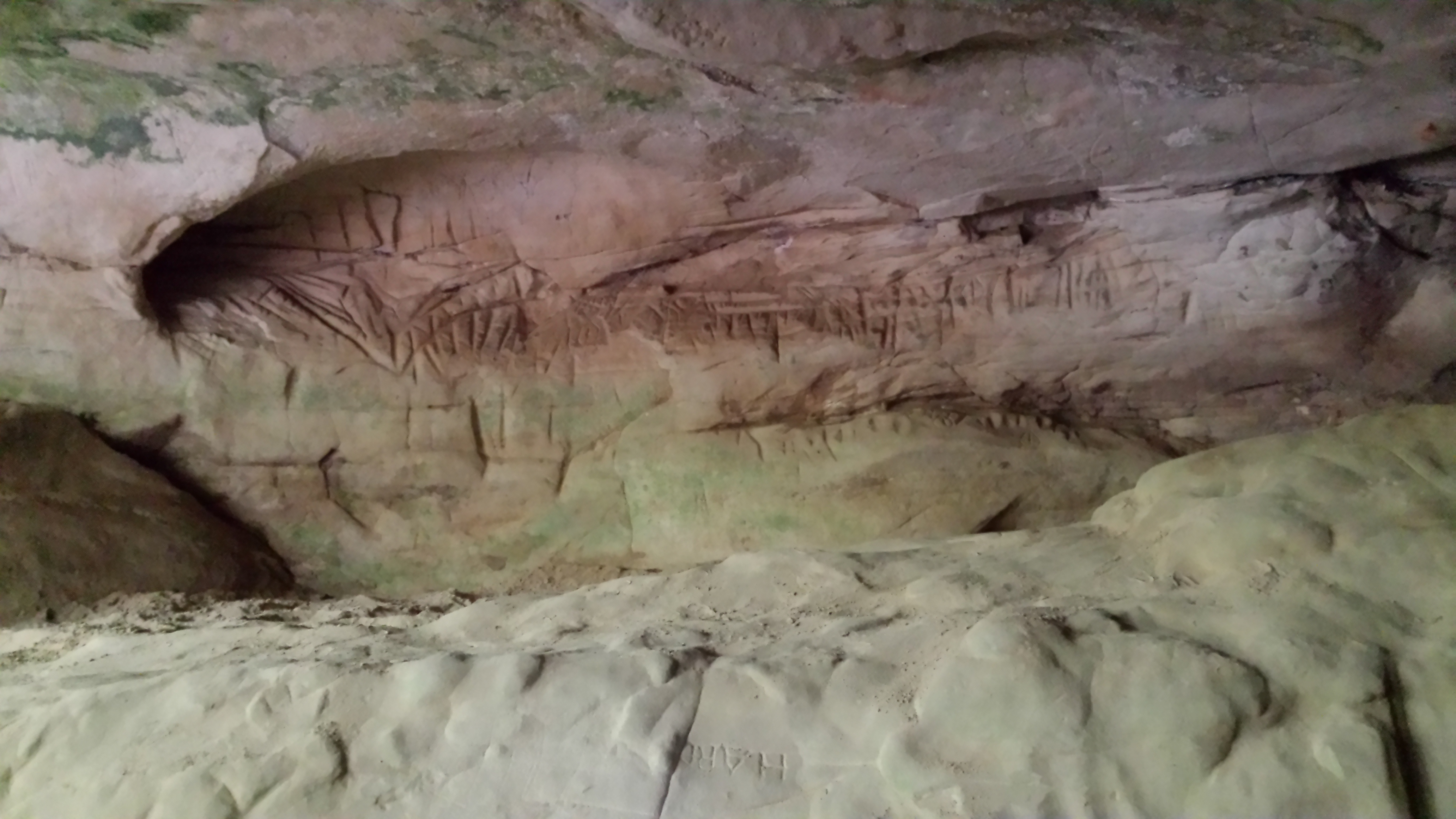 Rock carving in the cave "Grotte de la peinture" in Larchant France